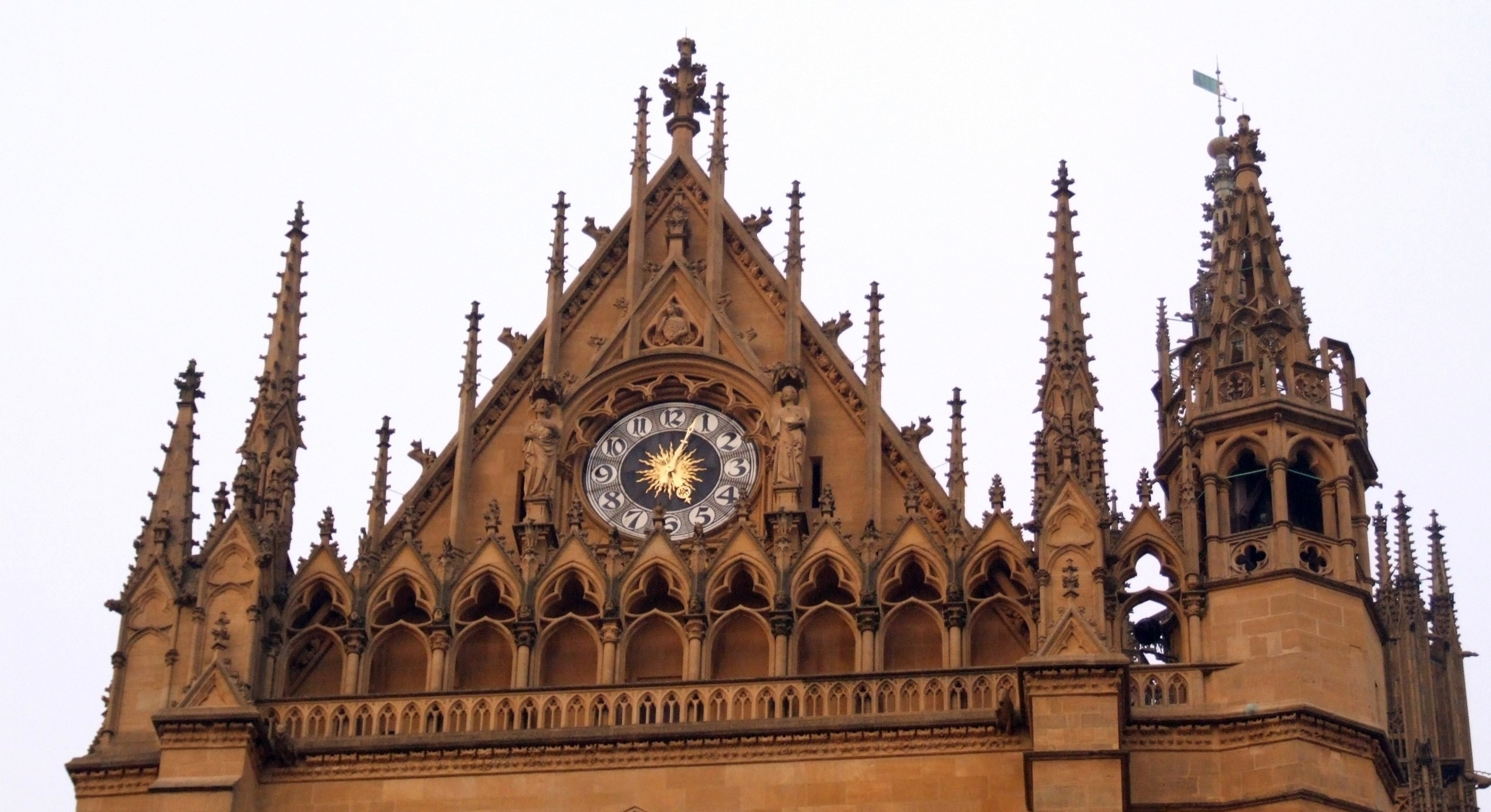 Metz cathedral, Metz, FRANCE